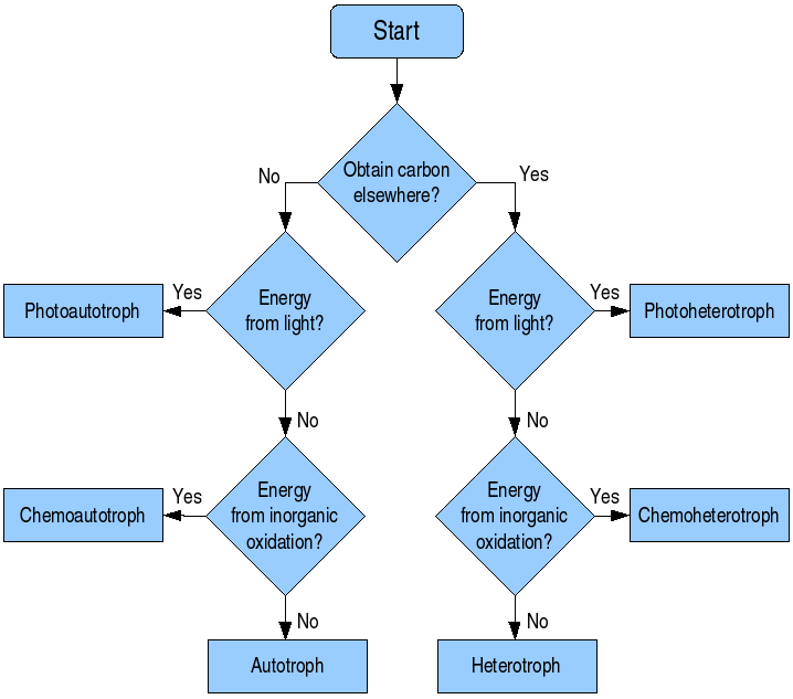 Flowchart to determine if a species is autotroph, heterotroph, photoheterotroph, chemoheterotroph, photoautotroph, or chemoautotroph. Original file This file was originally created in en: . If there are any changes to be made (different languages) then email me for the original file or give me the details and I'll make the changes. Either way would probably be better than editting the images directly. This picture/image was taken/created by me. See my User:Cburnett page for attribution or for other licenses.